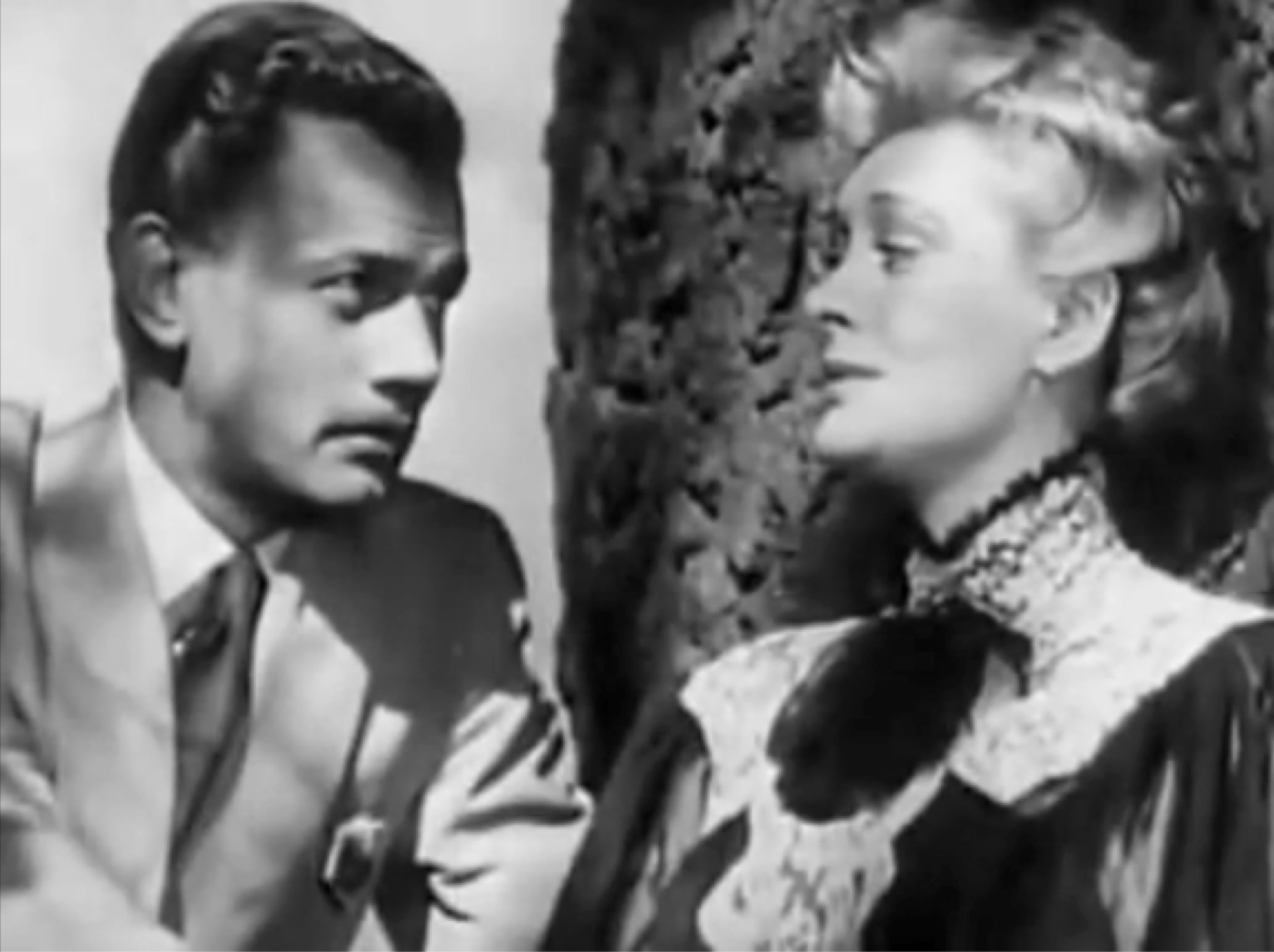 Screenshot of Joseph Cotten and Dolores Costello from the trailer for the film The Magnificent Ambersons (1942).